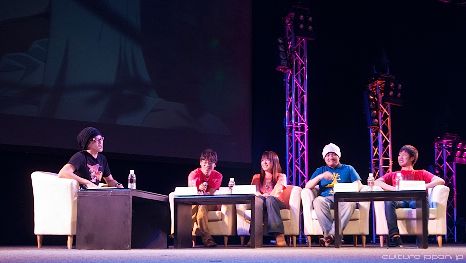 Director Tatsuyuki Nagai 長井 龍雪, Screenwriter Mari Okada 岡田 麿里, Character Designer Masayoshi Tanaka 田中 将賀 at Anime Festival Asia 2011. Photo from